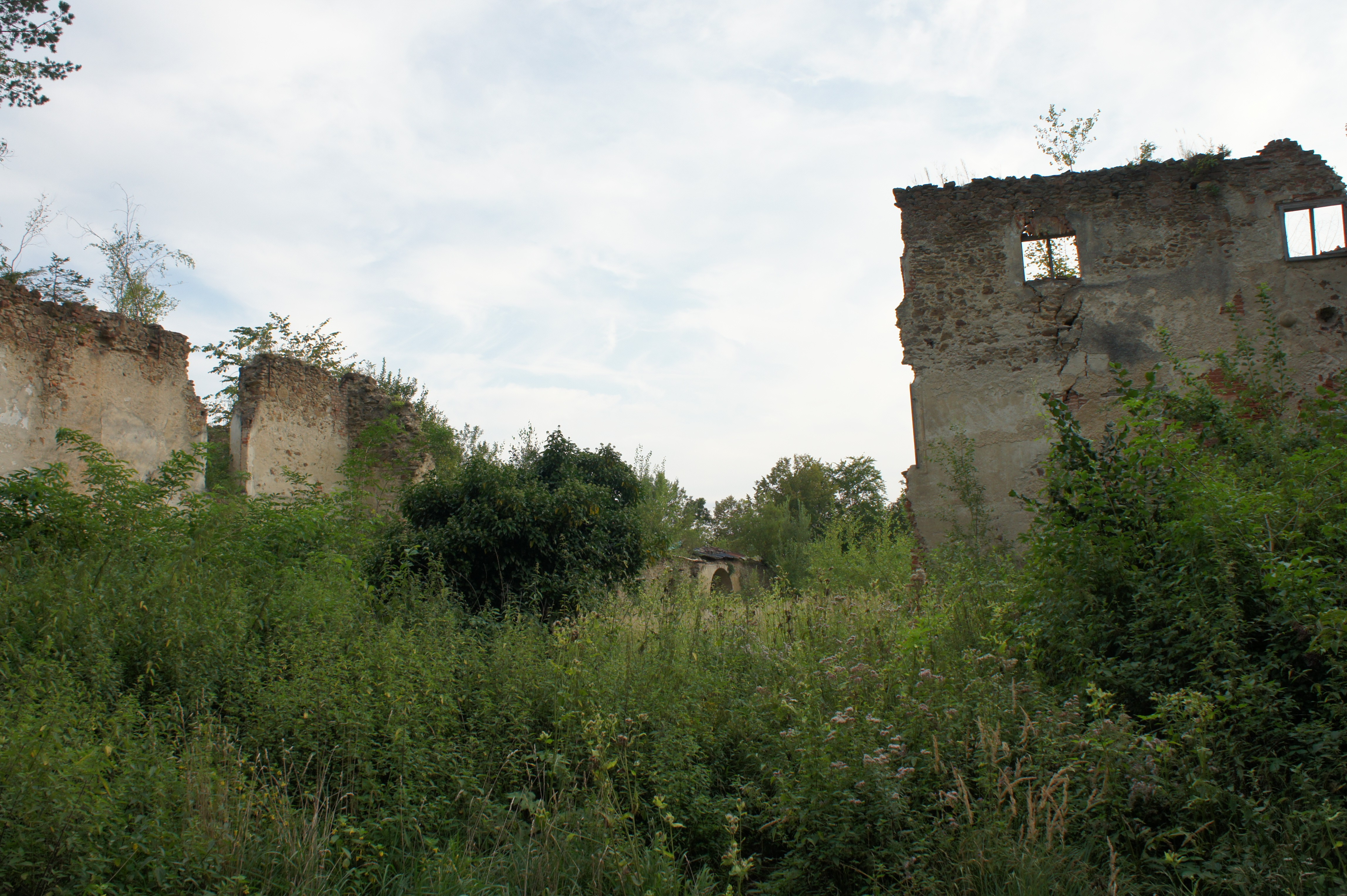 Castle ruin Bärnegg, Elsenau, Schäffern, Austria